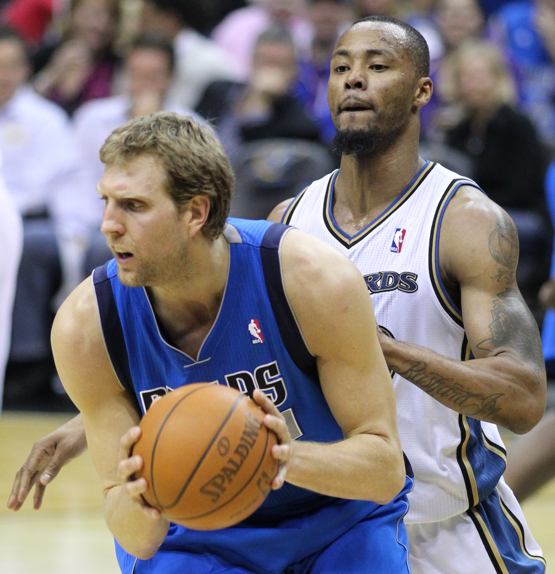 Dirk Nowitzki and Rashard Lewis, Wizards v/s Mavericks 02/26/11